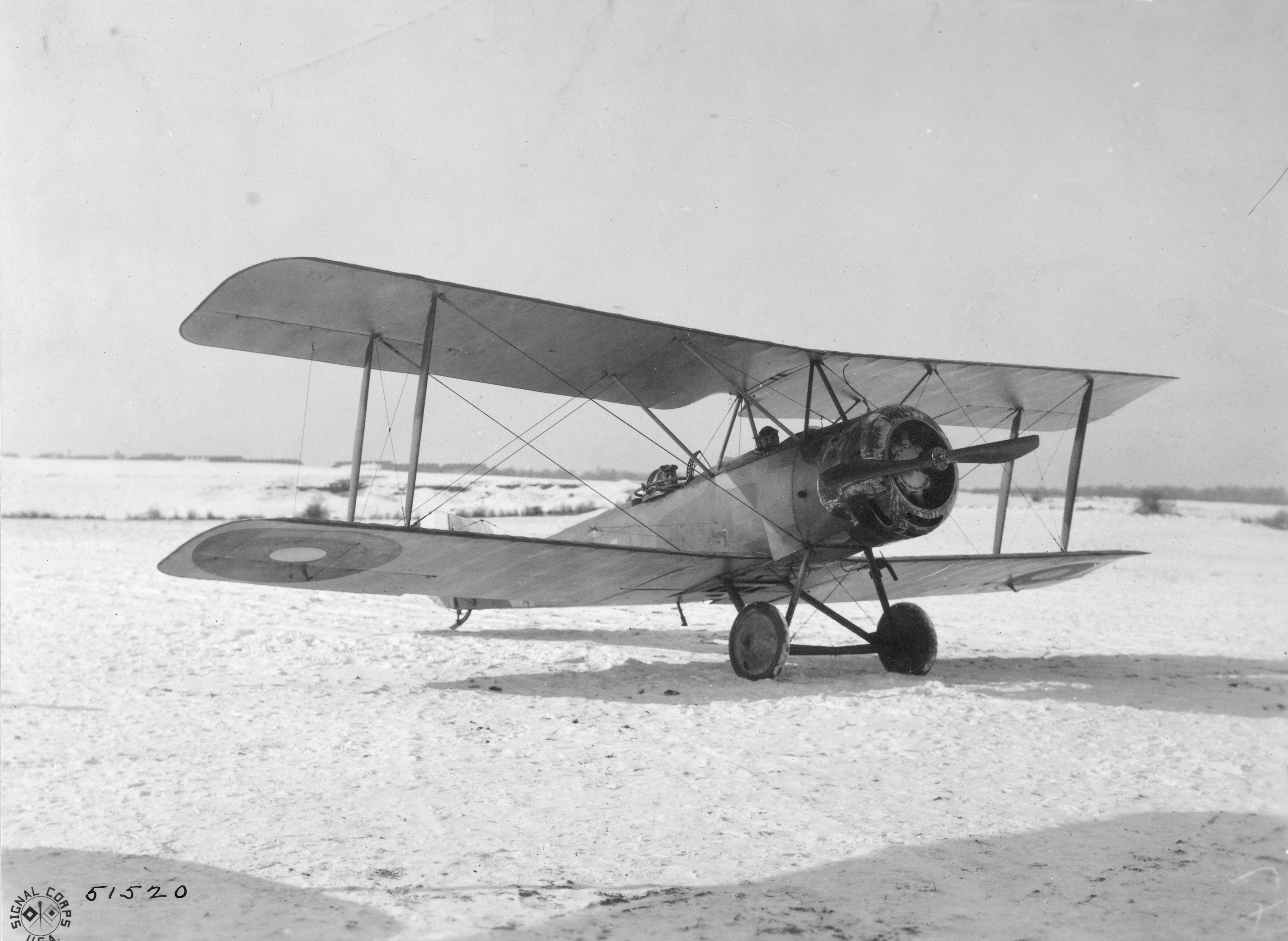 Aircraft during the First World War Sopwith one and a half Strutter, 130hp Clerget 9B rotary engine, at Le Valdahon.